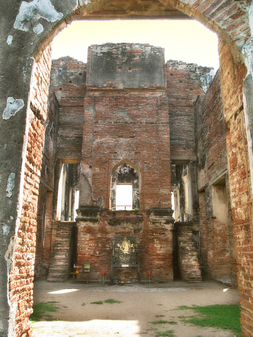 Dusit Sawan Throne Hall in Phra Narai Ratcha Nivet, palace of King Narai, Lopburi, Thailand